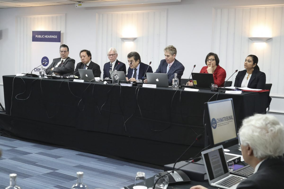 The Tribunal Panel (L-R) American historian Professor Arthur Waldron, Malaysian lawyer Andrew Khoo, Professor of Cardiothoracic Surgery Martin Elliott, Sir Geoffrey Nice QC (Chair), businessman Nicholas Vetch, Iranian human rights lawyer Shadi Sadr, American lawyer Regina Paulose, in London on Dec. 8, 2018.